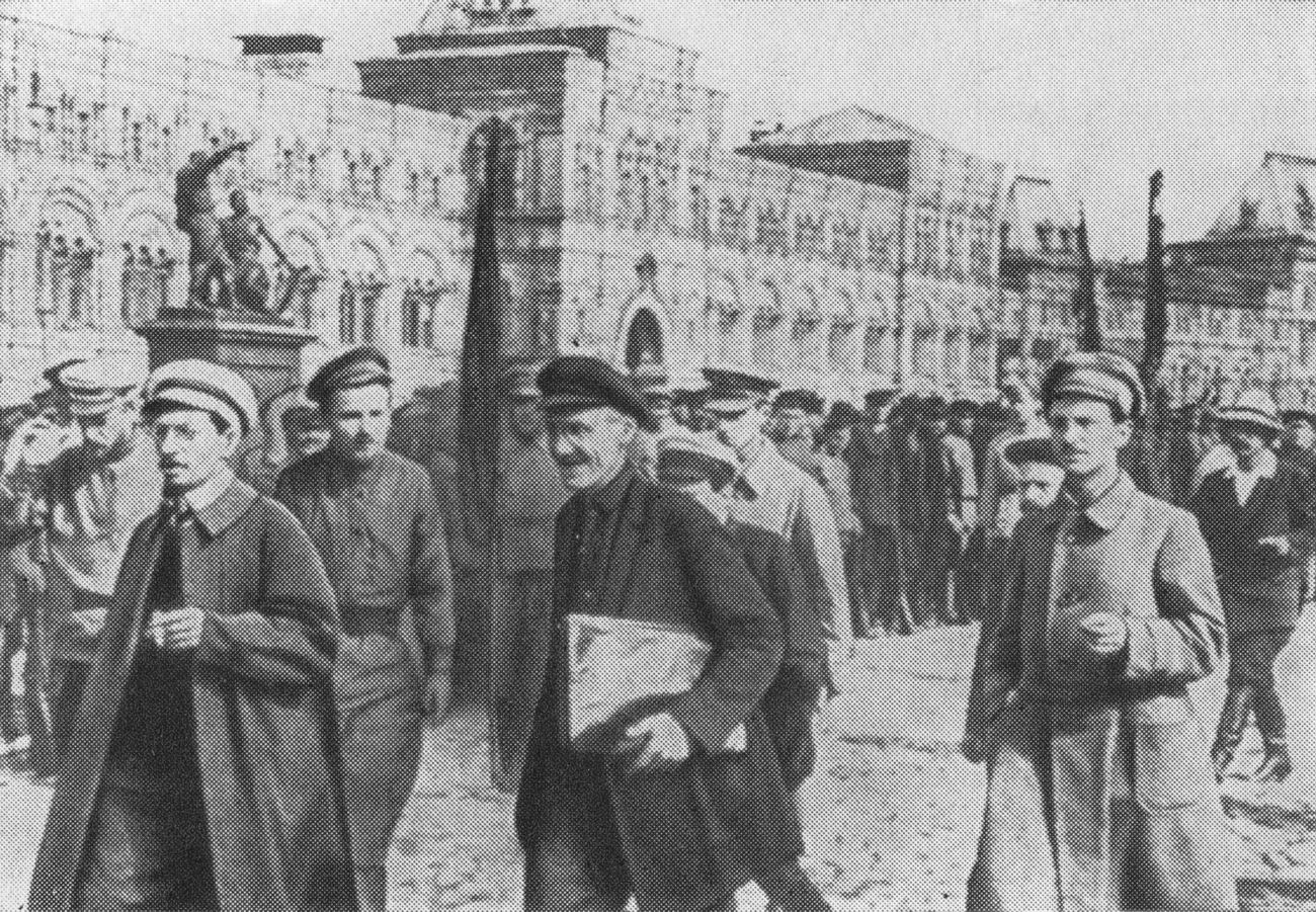 Yakov_Sverdlov on a parade of Red Army detachments. Moscow. August 1918.